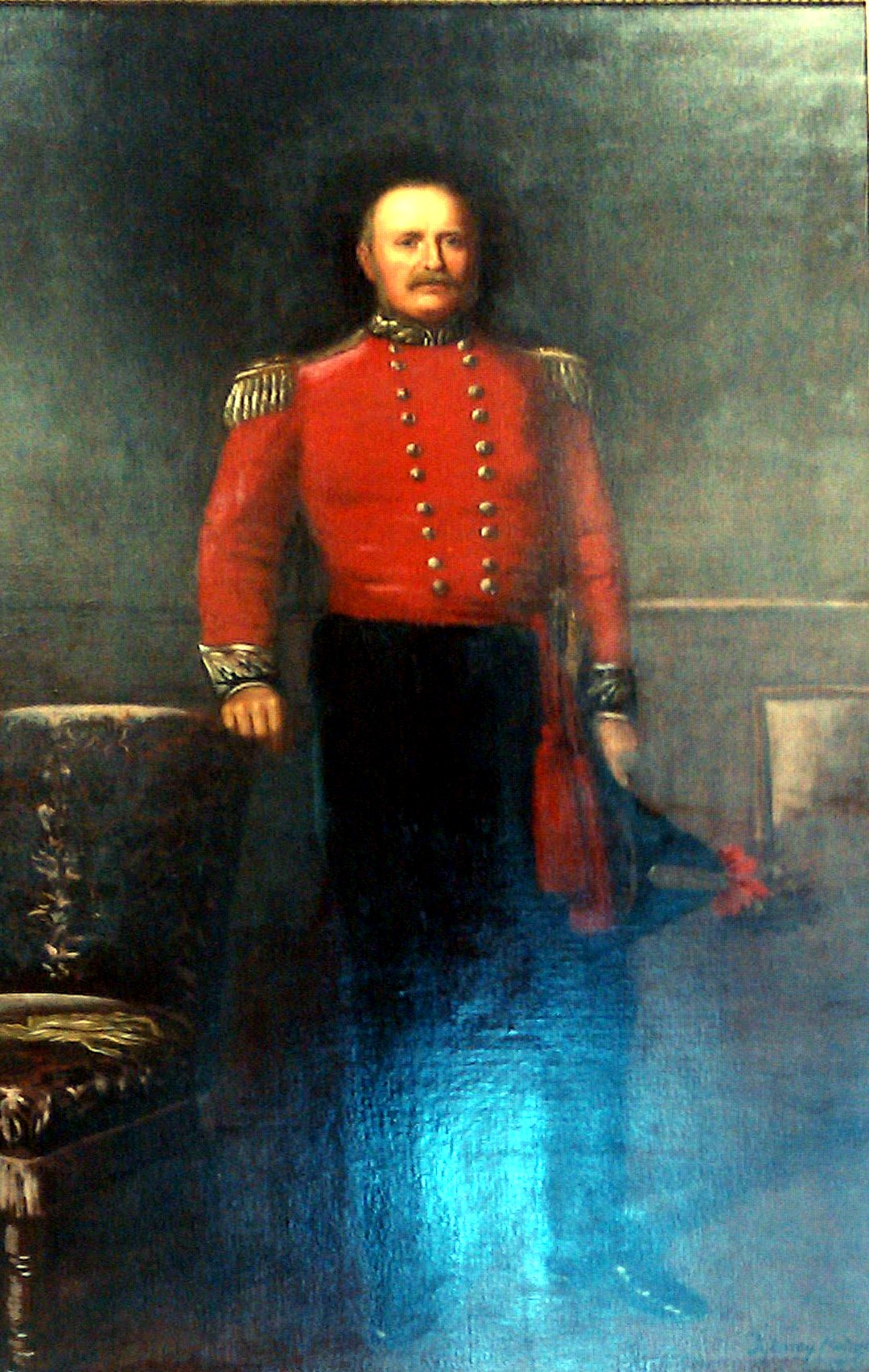 Monmouth Library John Rolls First Baron Llangattock